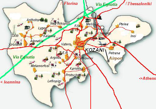 user:makedonas is the creator of this work.